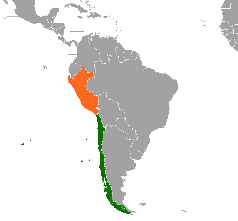 Chile Peru Locator Map